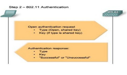 Зураг 1.3